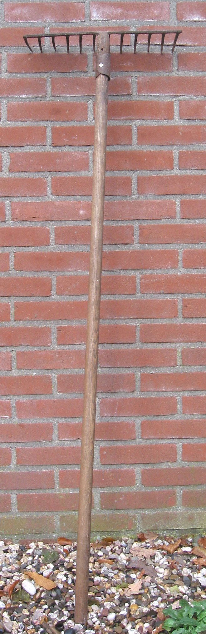 Hand rake0